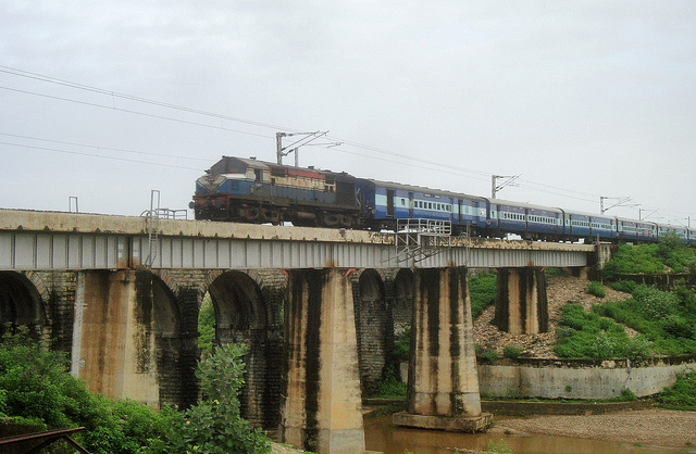 Kanahan Velly Express Near GDYA